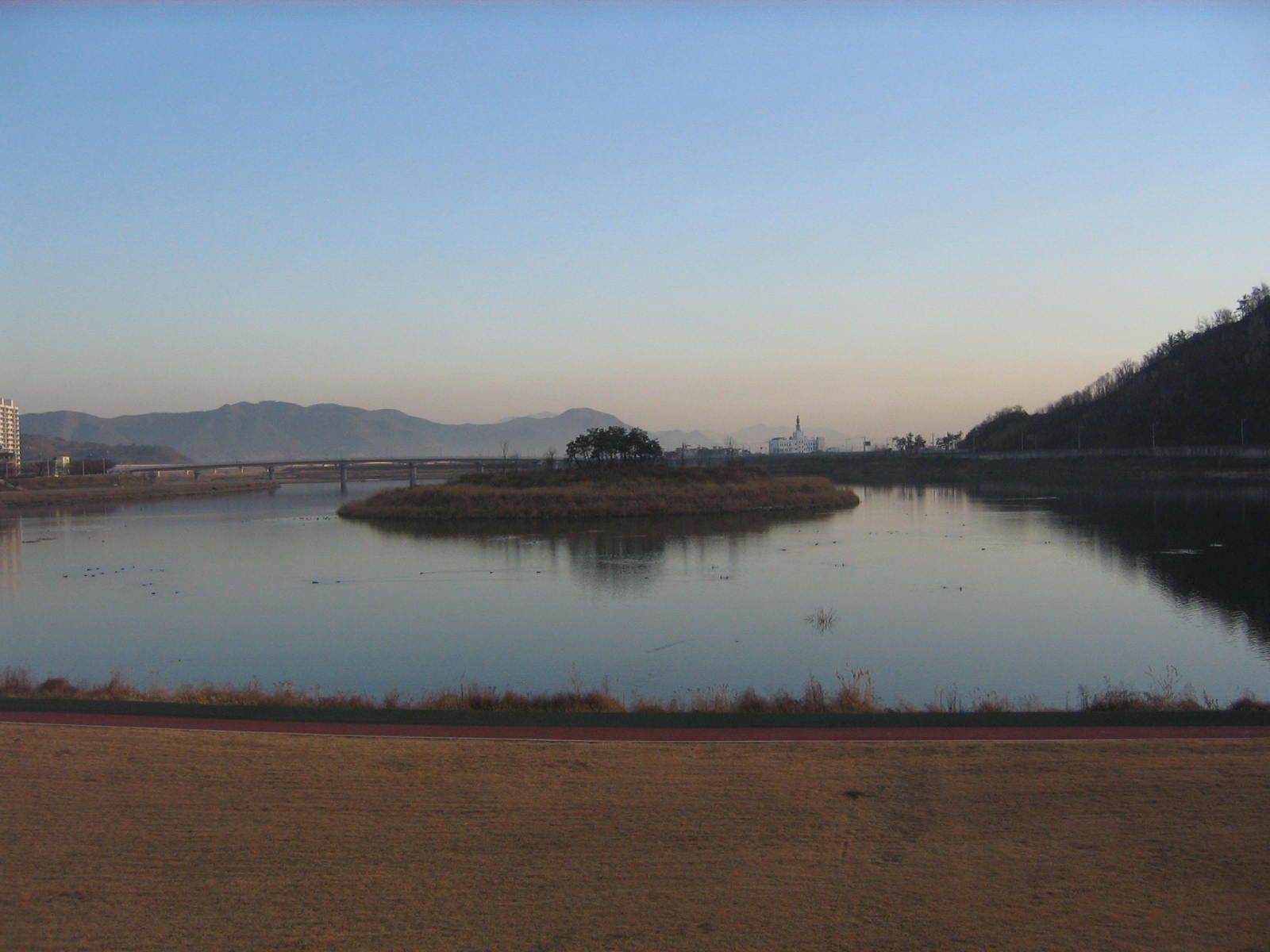 Island in the middle of the Miryang River in central Miryang, Gyeongsangnam-do, South Korea.